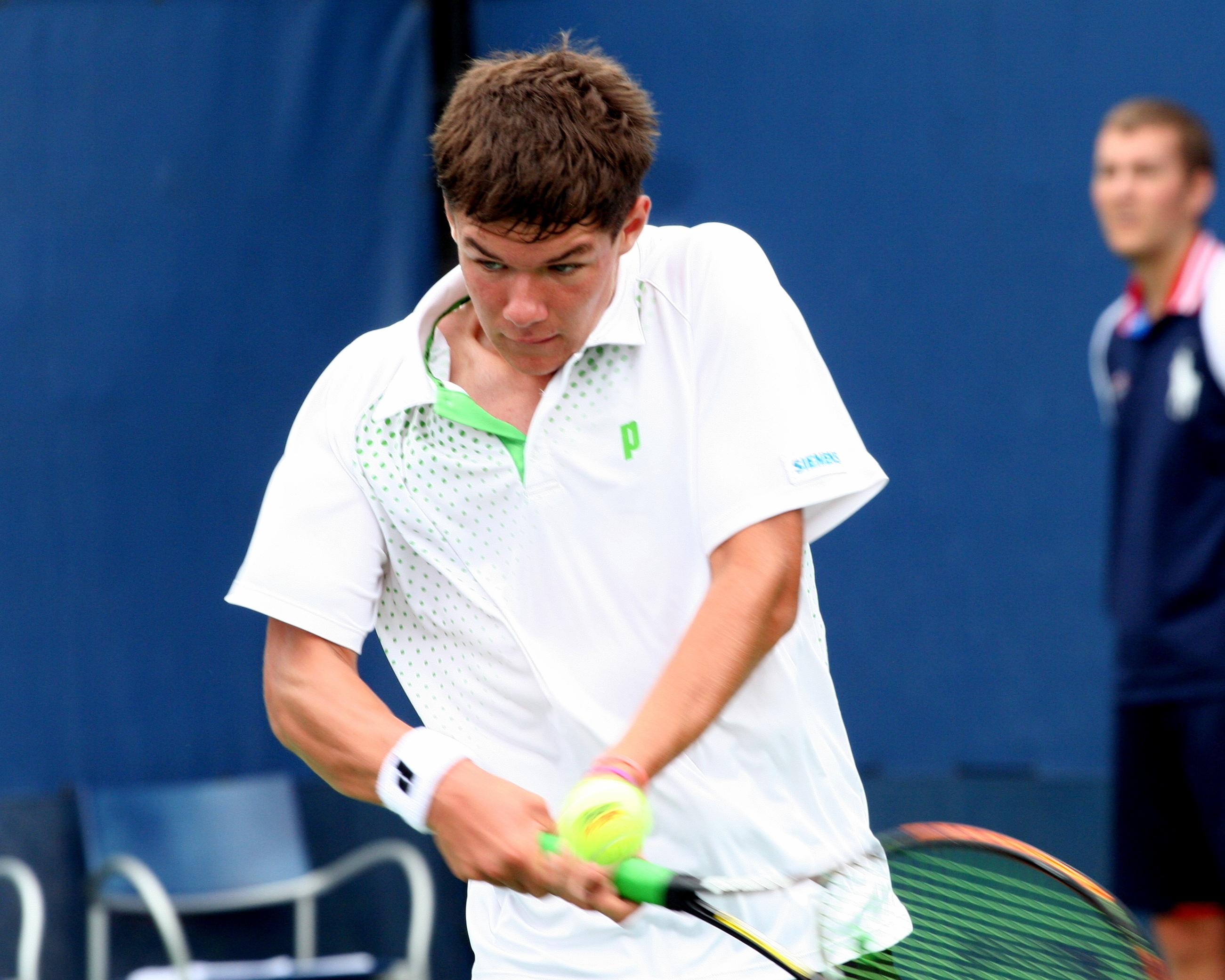 U.S. Open Juniors Tuesday, Sept. 3, 2013